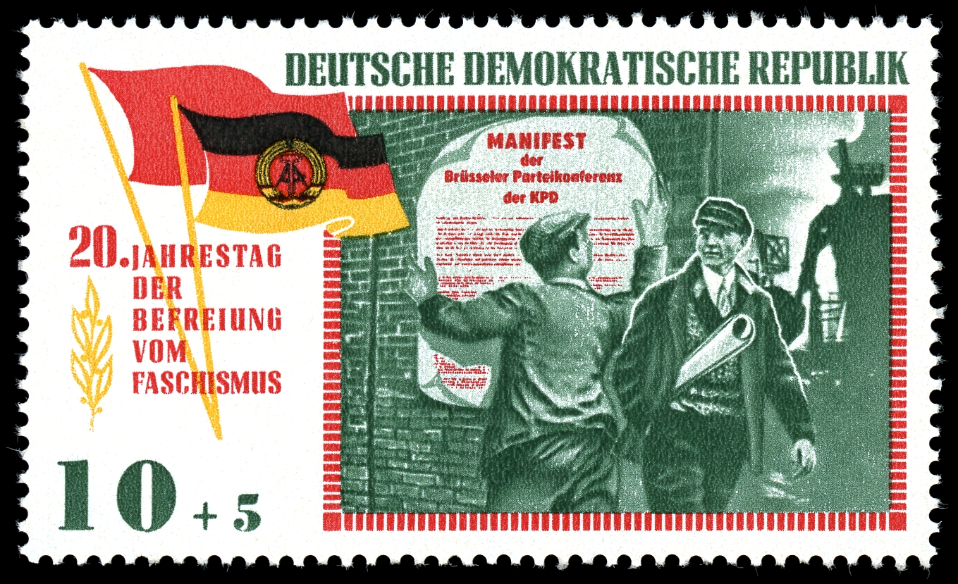 Ausgabepreis: Pfennig First Day of Issue / Erstausgabetag: Auflage: Entwurf: Druckverfahren: Michel-Katalog-Nr: Ländercode-MiNr: Licensing This file is most likely NOT in the public domain. It has been marked for review, and will be deleted in due course if the review does not find it to be in the public domain.This file was previously considered to be in the public domain as a German stamp; it is possible that it is in the public domain for other reasons, in which case a new rationale will be applied as part of the review process. See below for the previous rationale. Previous public domain rationale, no longer applicable This stamp is in the public domain in Germany because it was released by the postal administration of the German Democratic Republic or the Soviet occupation zone (Deutschen Post der DDR) whose legal successor is the Federal Republic of Germany. Thus it is an official work according to German copyright law (§ 5 Abs. 1 UrhG).